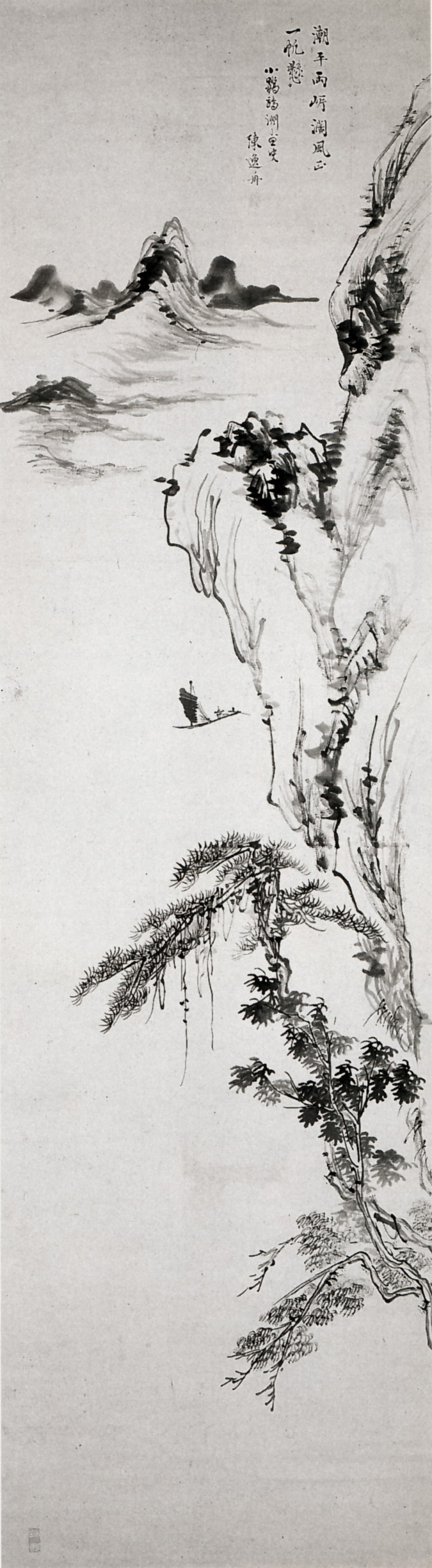 Ch'ên I-Chou,A hanging scroll,ink on paper,Landscape,Collection of Mr Hashimoto Sueyoshi,Middle Edo period.